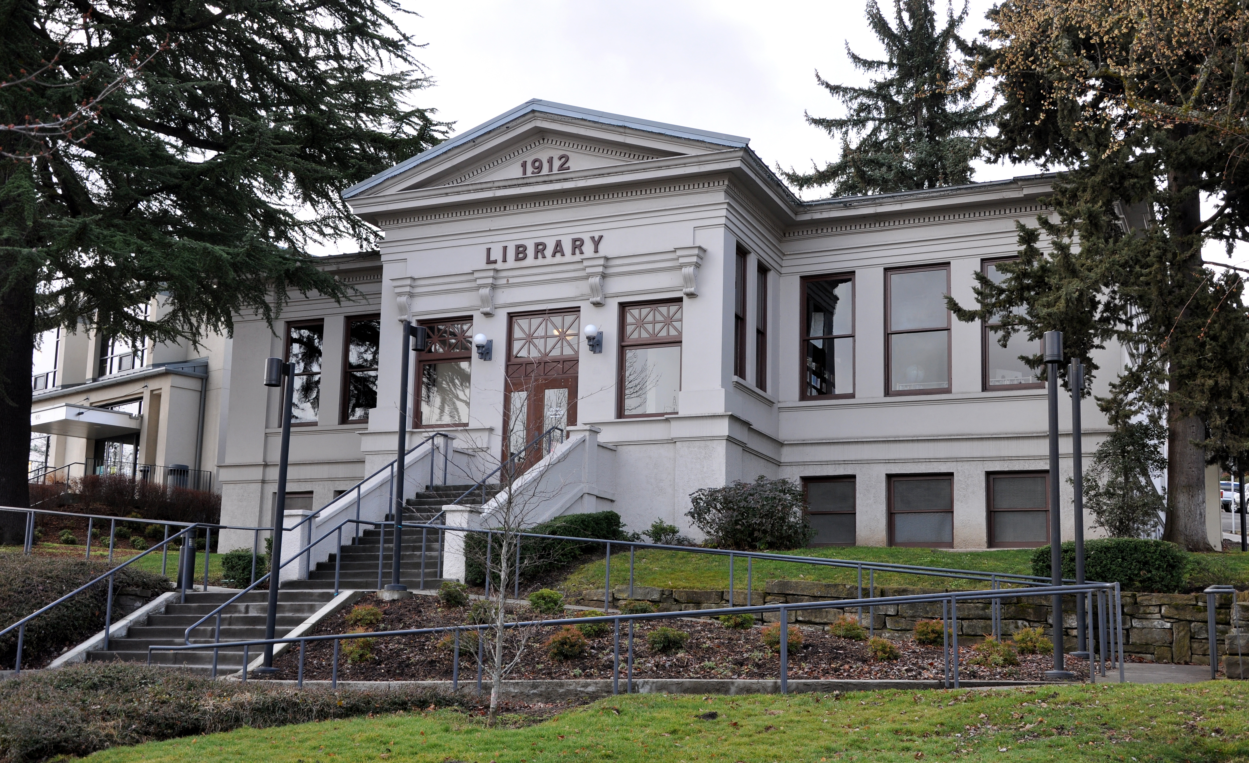 Public library in Ashland in the U.S. state of Oregon